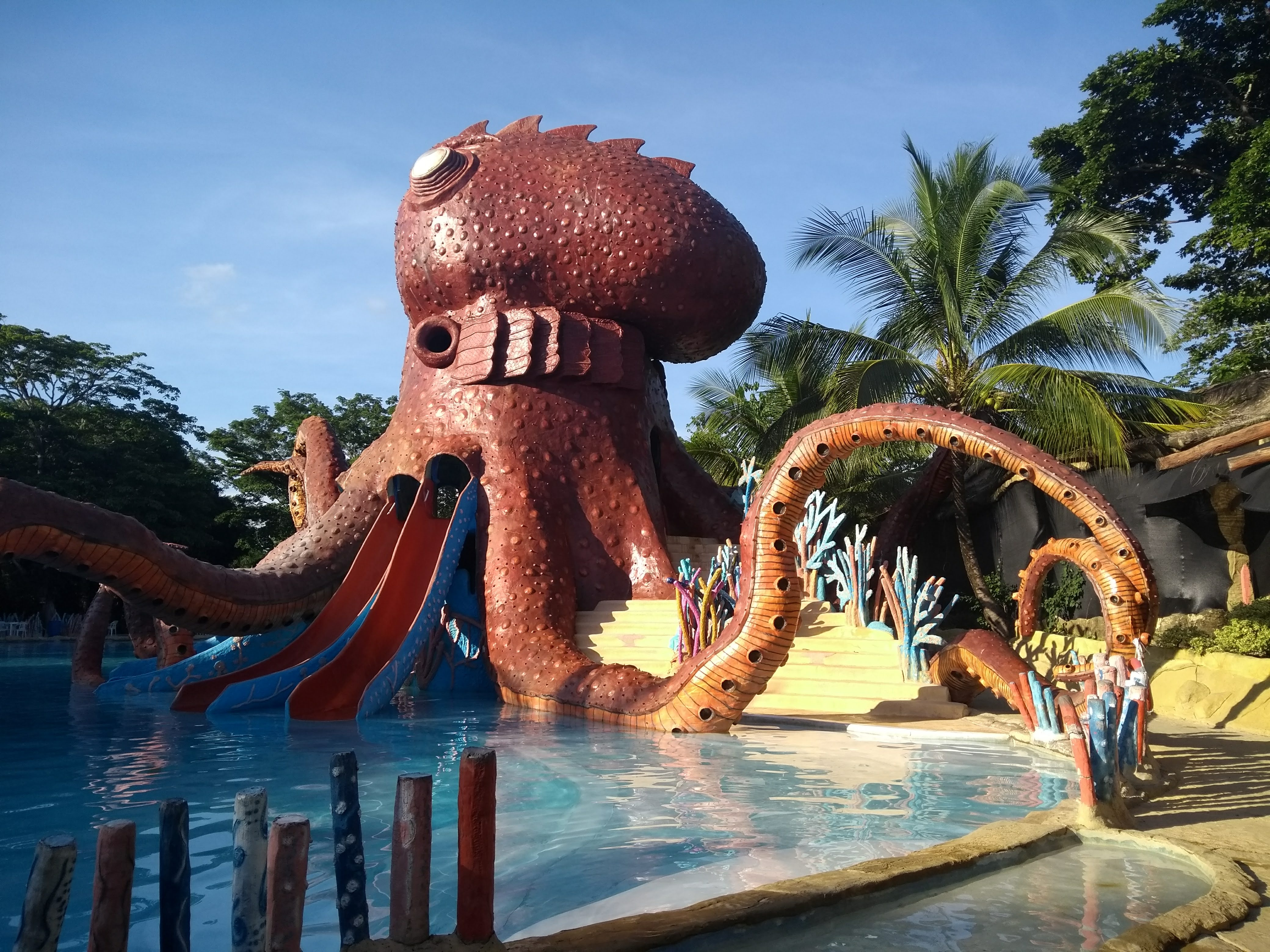 one of the many water slides in the park